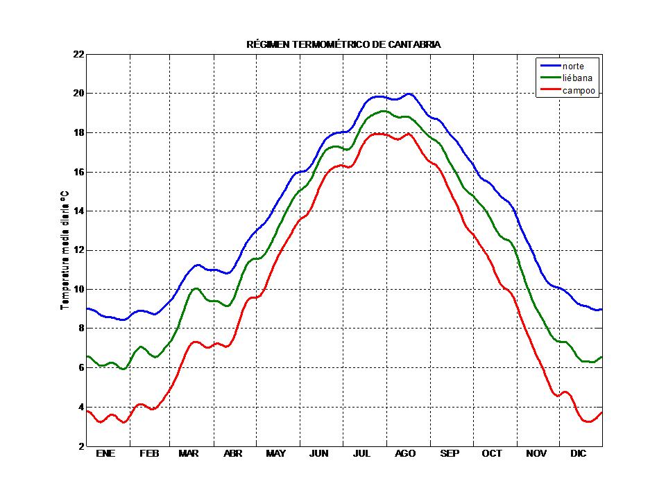 Temporary temperature regime in Cantabria